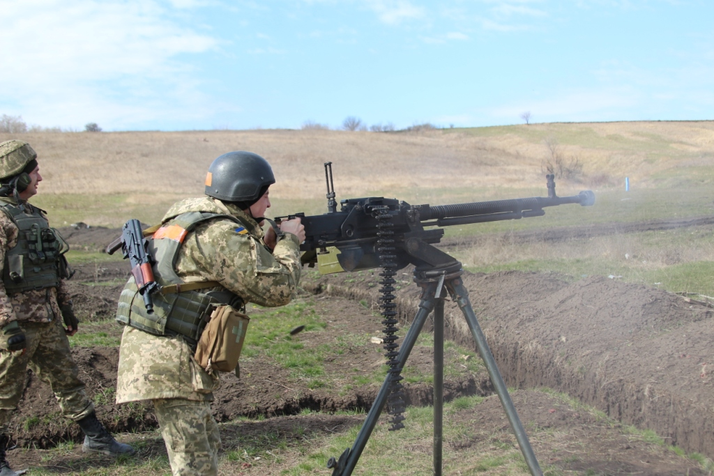 DShK machine gun.